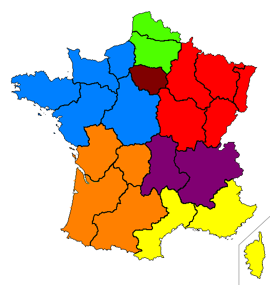 map of metropolitan France showing defense zones. Derived from File:France-region.png, map of metropolitan France showing region, by Phe 19:47, 11 February 2006 (UTC). For the new zones and regions since the 1st of January 2016, see File:France-zone-defense-2016.png.